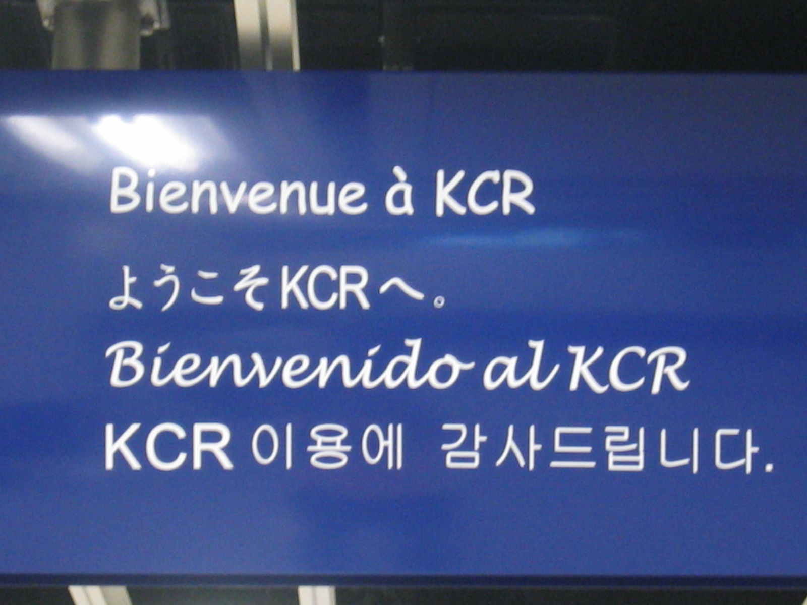 Multilingual welcome sign (French, Japanese, Spanish, Korean) above ticket gates on KCR East Tsim Sha Tsui station, Hong Kong